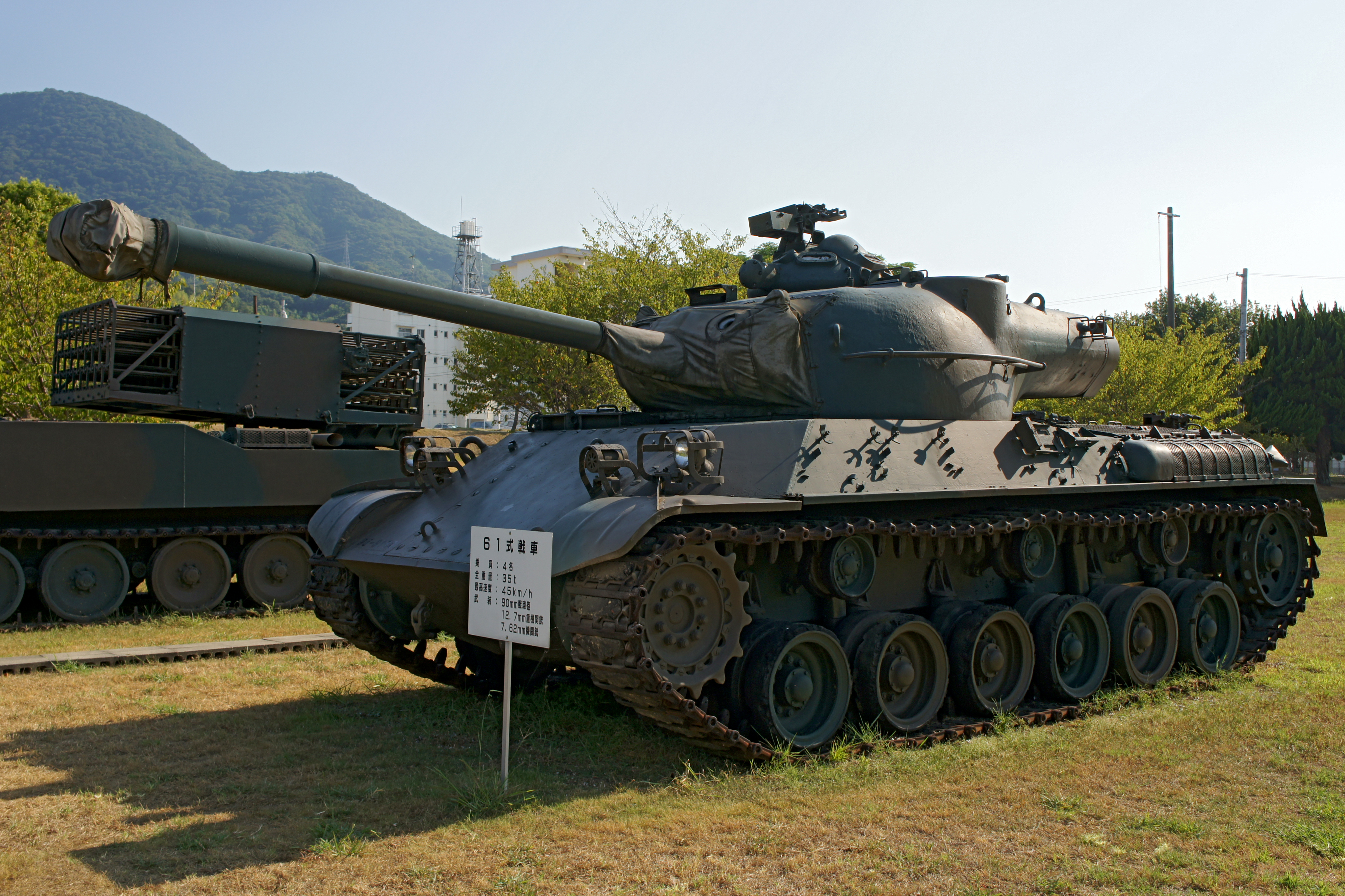 JGSDF Type 61 tank at The Museum of JGSDF Camp Zentsuji in Zentsuji City, Kagawa prefecture, Japan